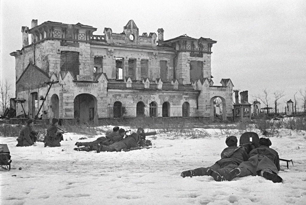 “A battle in the outskirts”. Soviet machine-gunners firing at the enemy near the old train station Detskoe Selo in Pushkin near Leningrad.